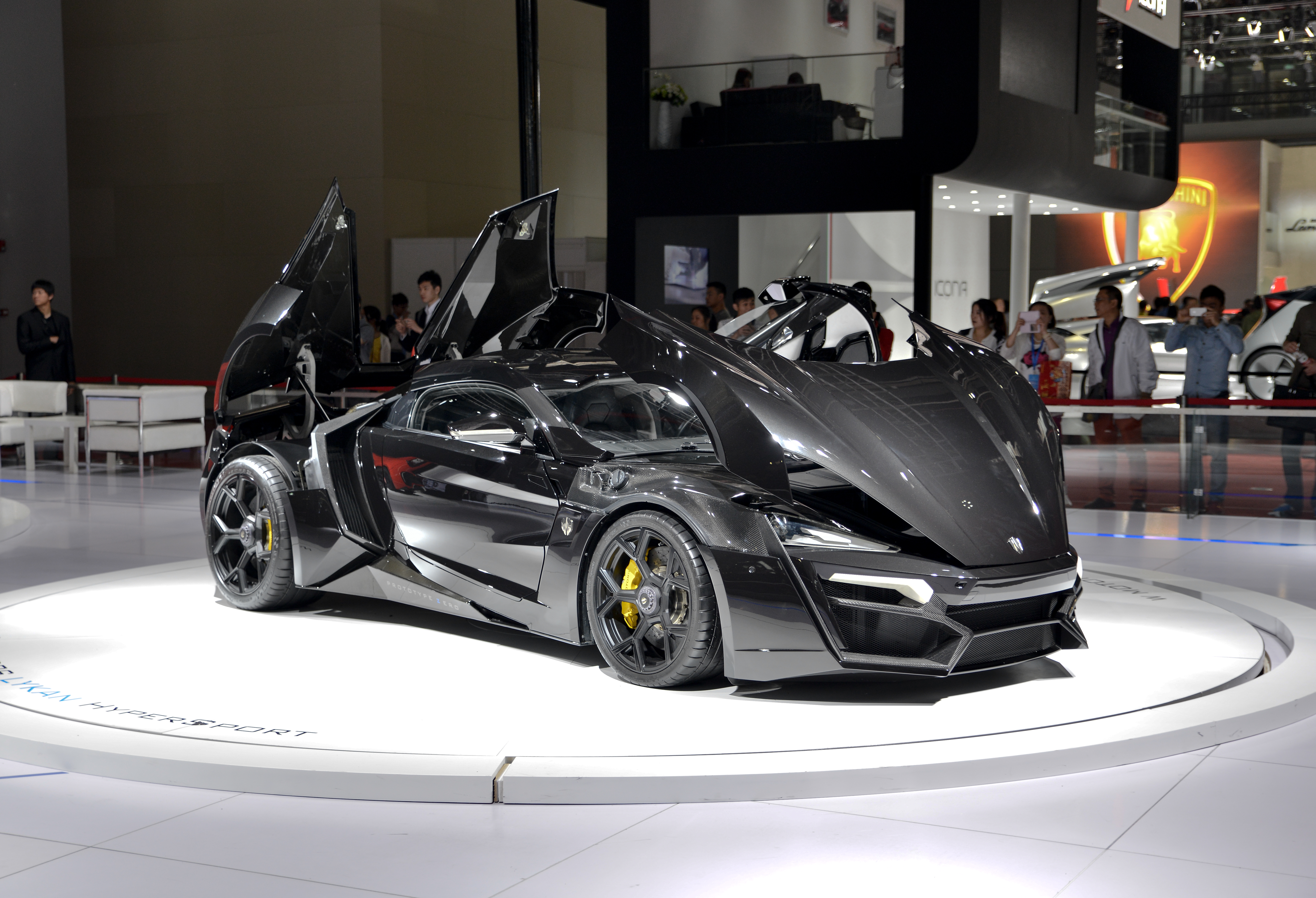 · Manufacturer：W Motors · Production：2012-2014 · Model years：2013-2014 · Body style： 2-door coupé · Layout：Rear mid-engine, rear-wheel-drive layout · Engine： 3.7L twin turbo flat-six, 740 bhp, 960 N·m · Transmission： 6-speed sequential or 7-speed dual clutch automatic · Wheelbase ：2,625 mm · Length ：4,480 mm · Width：1,944 mm · Height ： 1,170 mm · Kerb weight：1,380 kg · 0 to 62 mph：2.8 seconds · Top speed ： 385 km/h (239 mph) · The third most expensive car in the world, about US$ 3.4 million. · ( Informations from Wikipedia. ) Auto Shanghai 2015